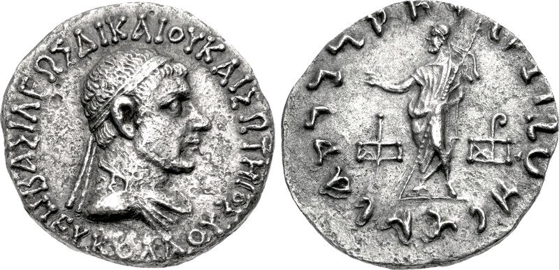 Peucolaos Soter Dikaios Tetradrachm